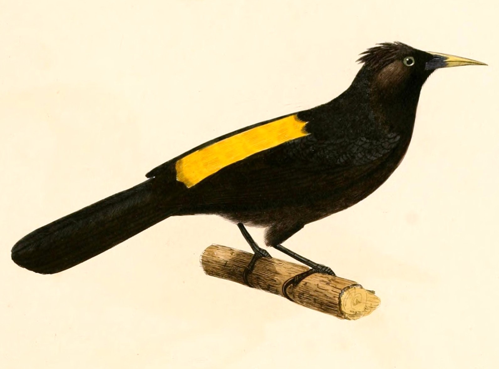 « Cassicus chrysonotus » = Cacicus chrysonotus (Mountain Cacique)